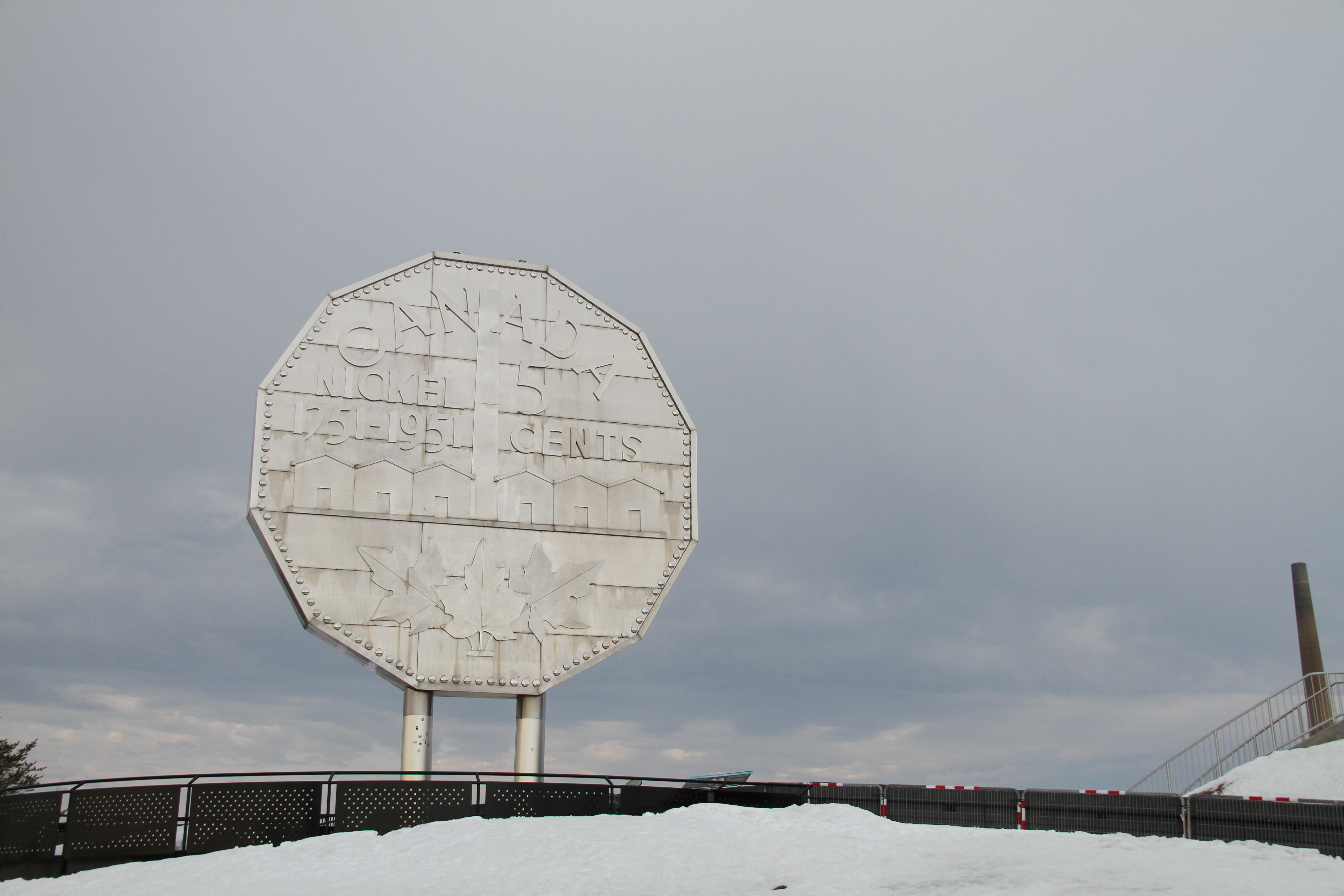 This is a photograph of the Big Nickel in Sudbury, with the Superstack visible in the background.